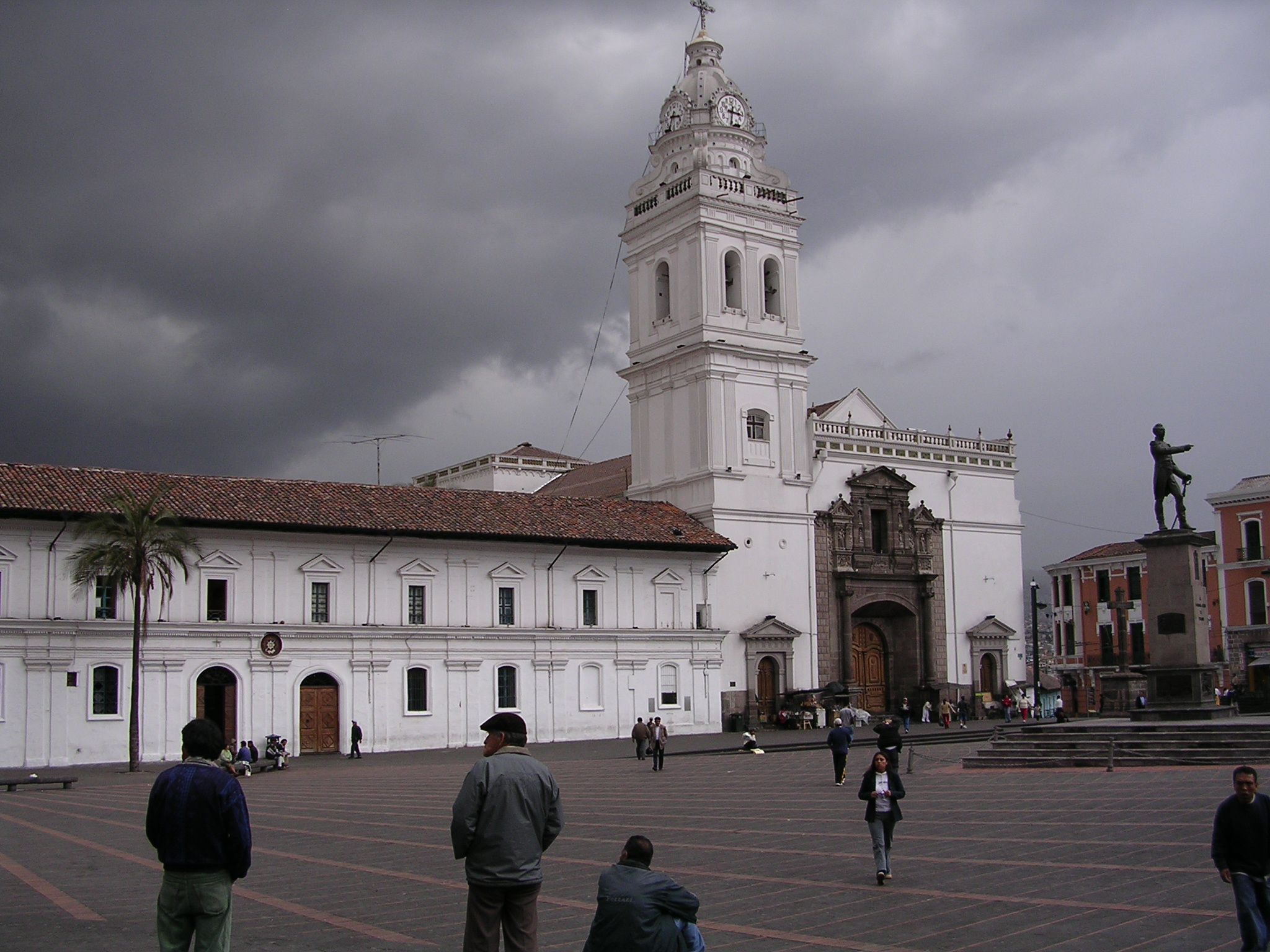 Church of Santo Domingo in Quito. On the right the statue of Antonio José de Sucre pointing at Pichincha.